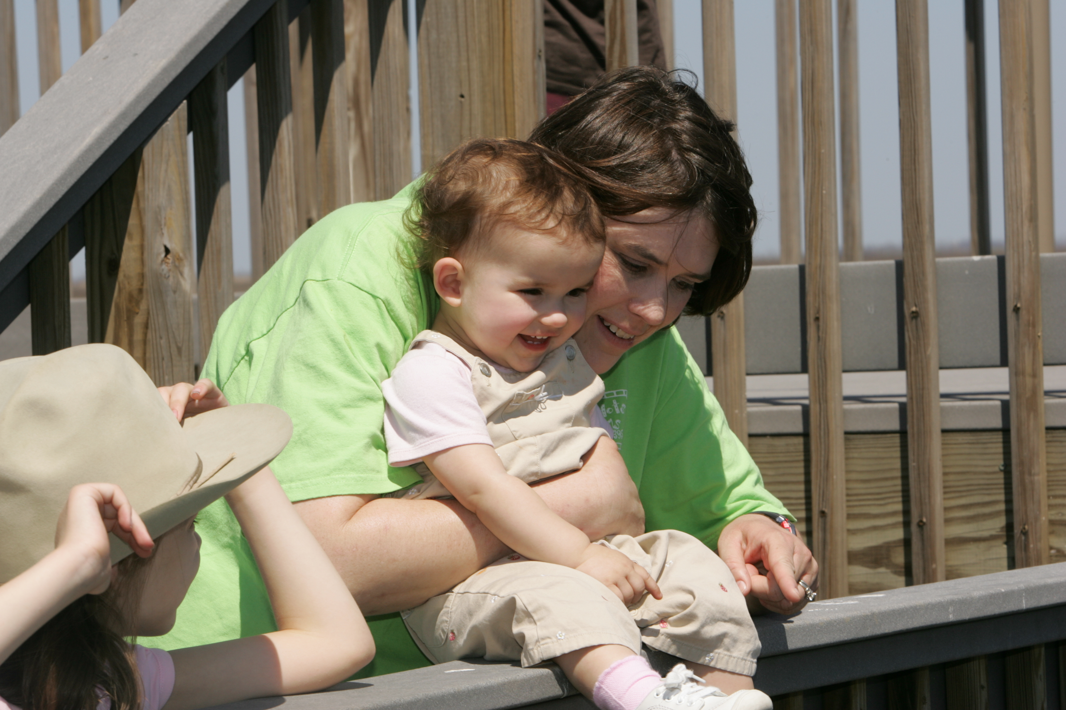 A woman and two children enjoy the sights from a refuge viewing area.